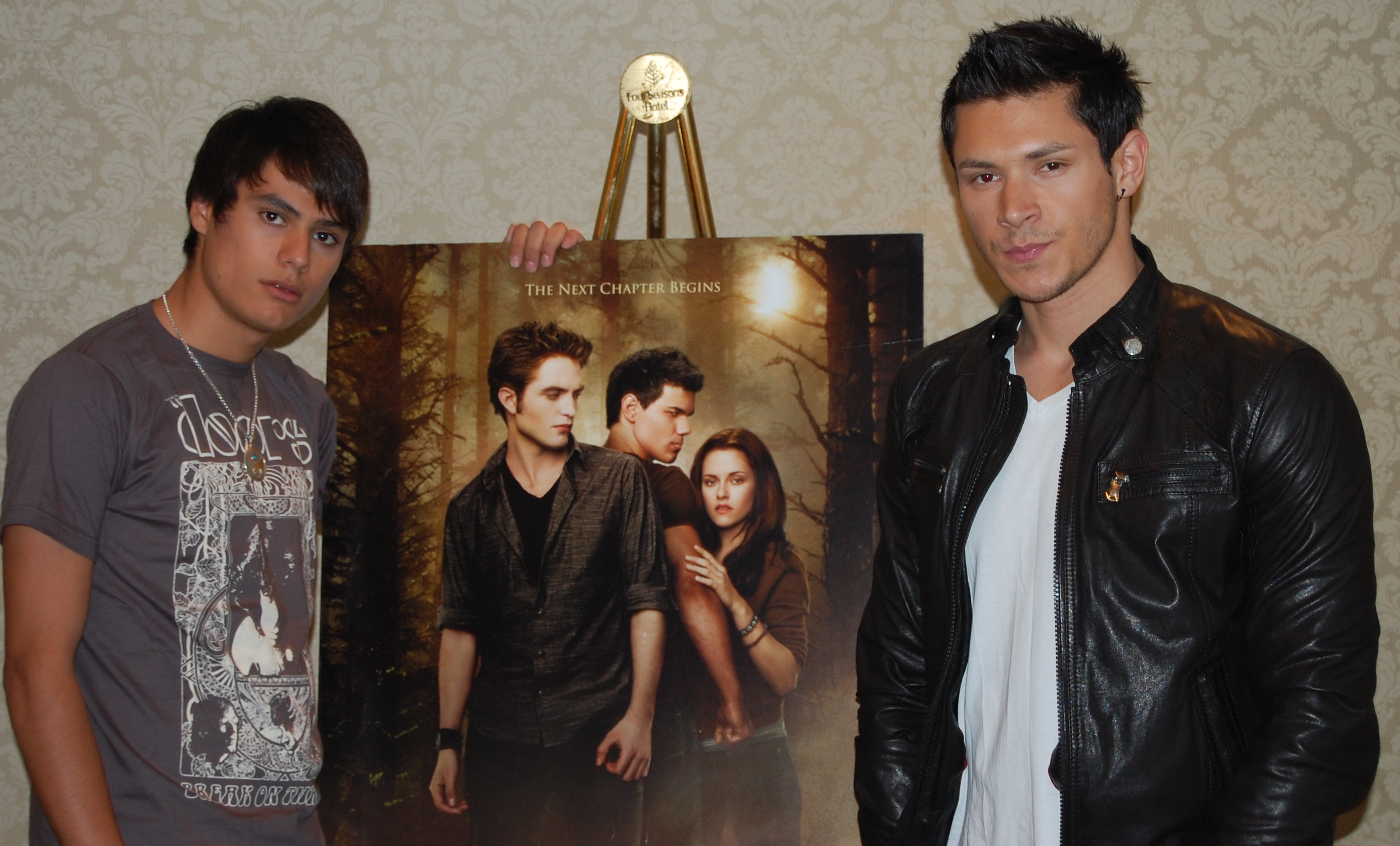 Kiowa Gordon and Alex Meraz posing beside a Twilight: New Moon poster.